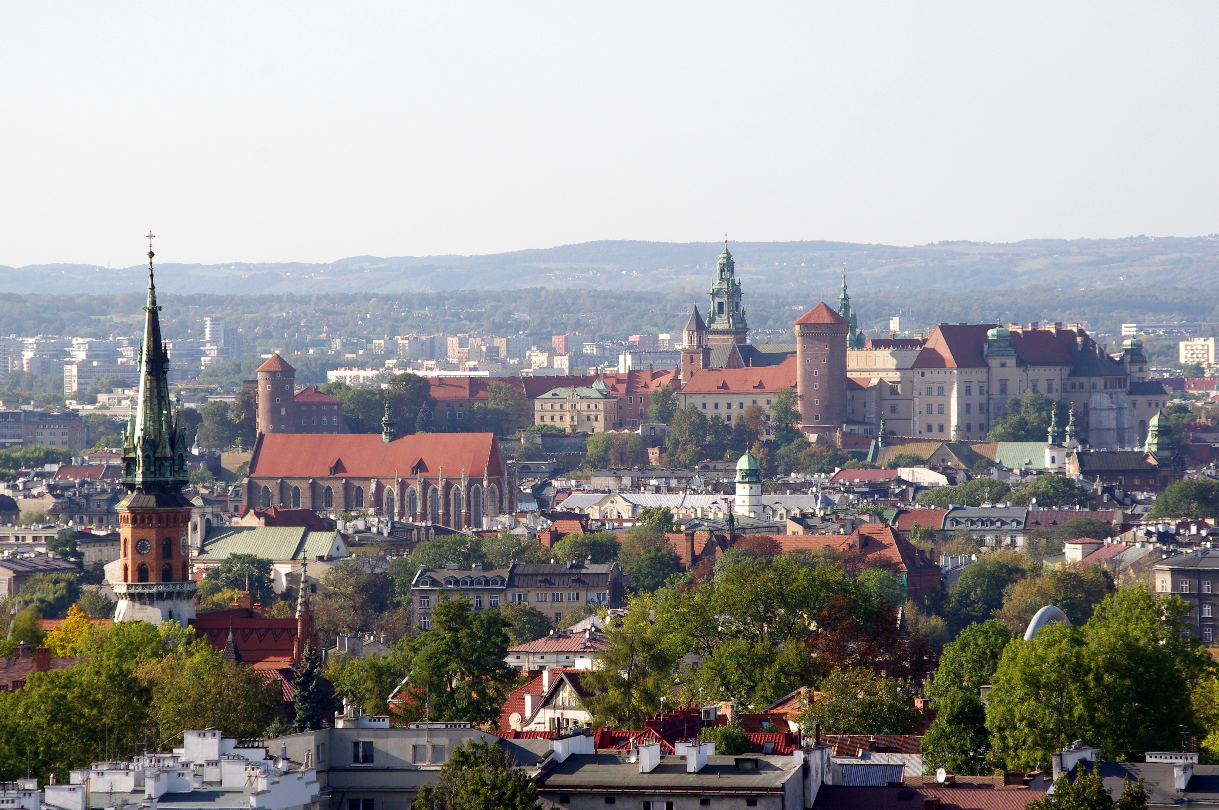 View on Wawel Castle, Saint Catherine Church, Kazimierz and Podgórze districts from Krakus Mound in Kraków